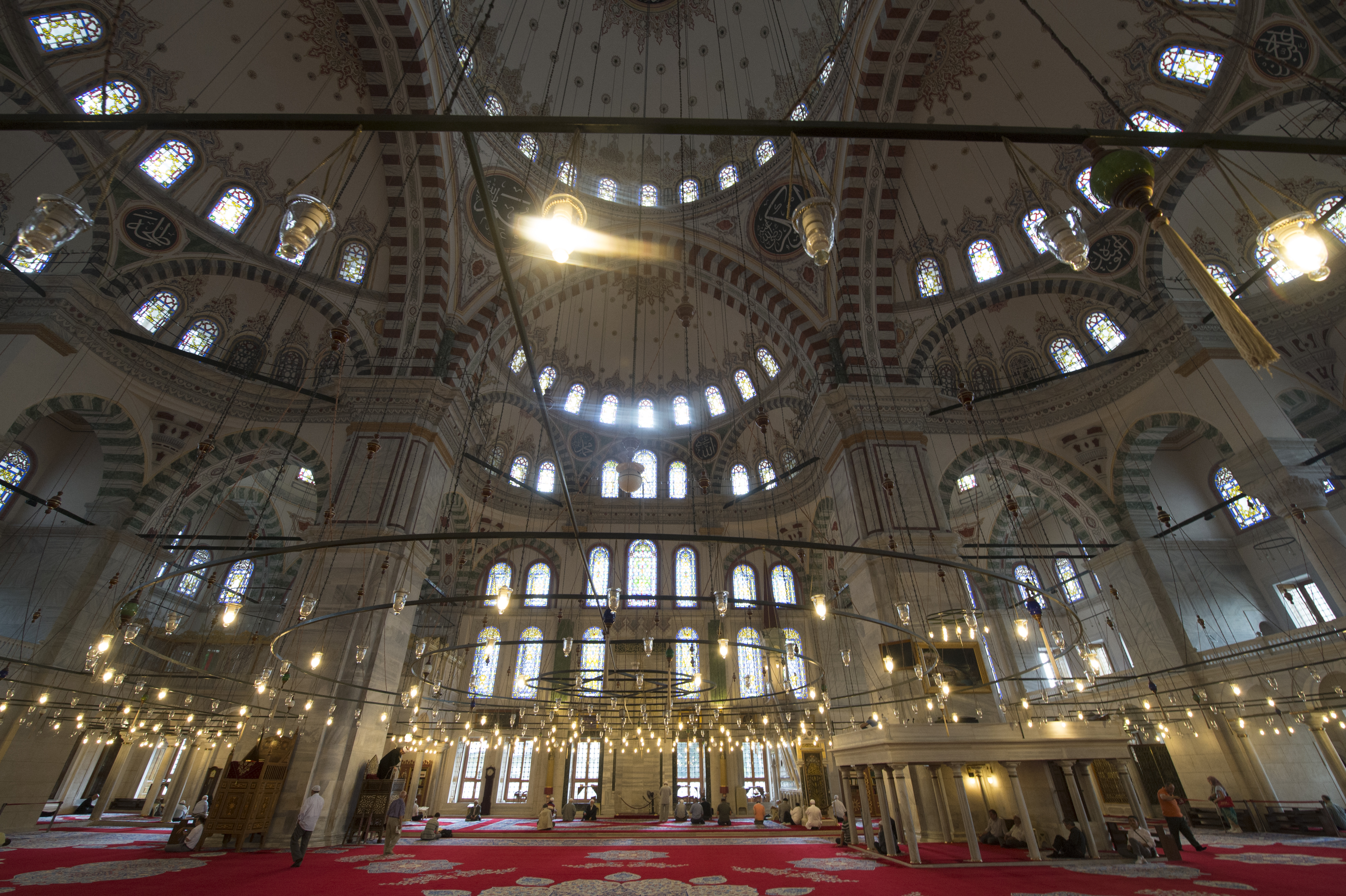 Taken with a wide angle lens